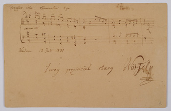 Würfels dedication to Frédéric Chopin